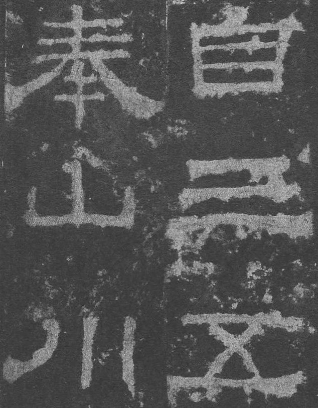 汉 延熹 西岳华山庙碑 顺德本 香港中文大学文物馆藏